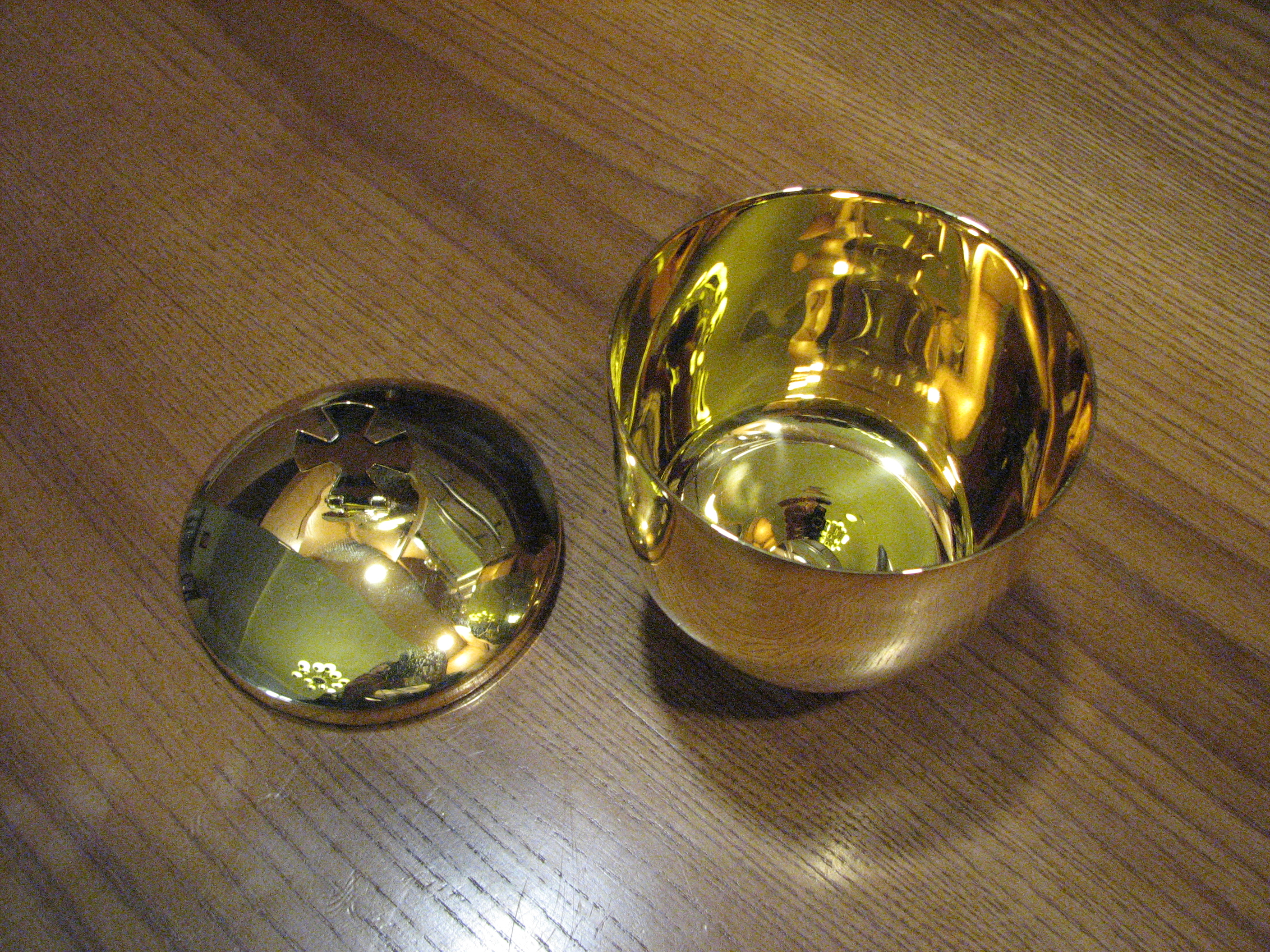 Ciborium, Cieszyn, Poland